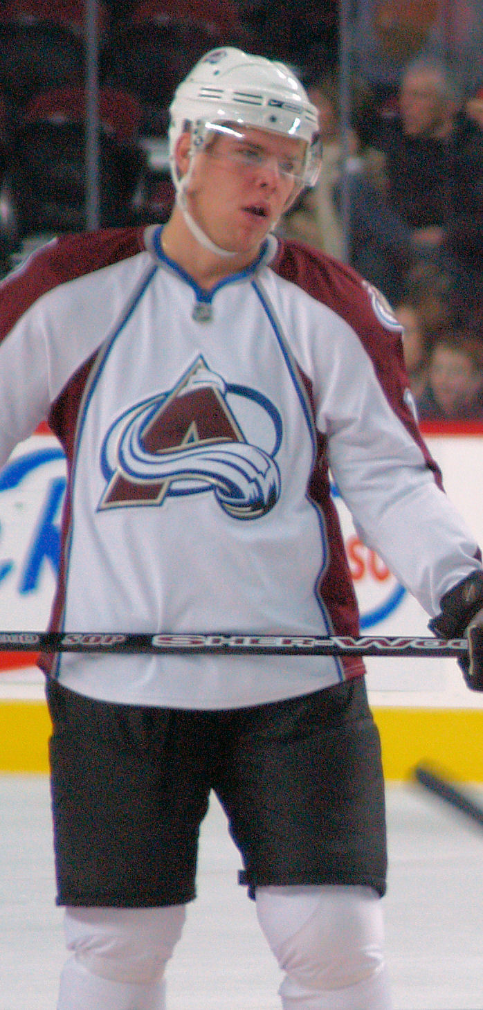 Canadian-American ice hockey player Paul Stastny warms up before a game against the Calgary Flames.